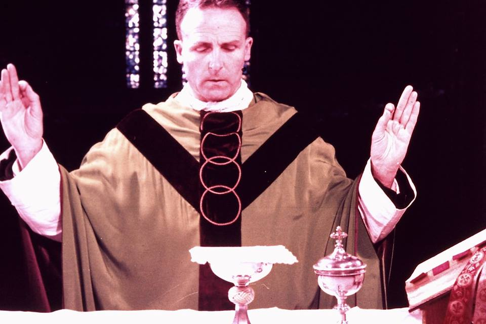 Saint Sacrifice de la messe. Stopmovie by Dom Lefebvre, made in 1957, forgotten after the Vatican Council and gound back in the episcopal archives of Nancy, France. Discovered in the archives by Jan Degeest from Gent, Belgium in 2016. First time projected in more than 50 years then uploaded on Wiki Commons on October 2016.